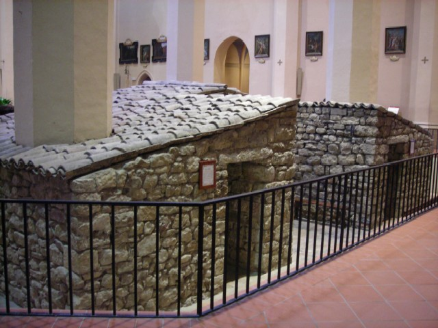 tugurium of St Francis, Rivotorto, Assisi, Perugia, Umbria, Italy